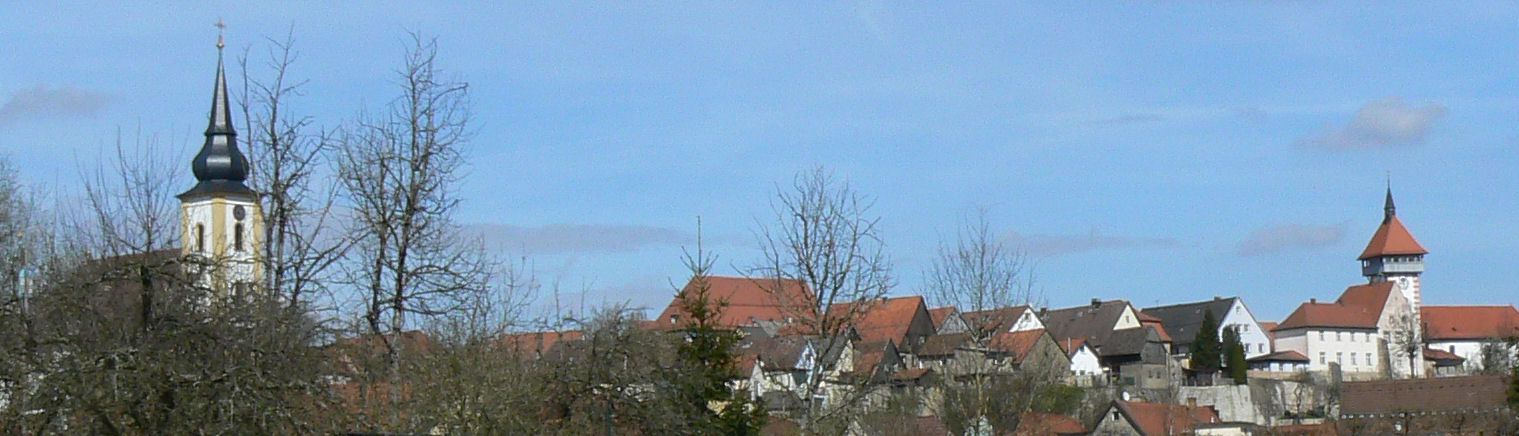 view of Hollfeld, Germany